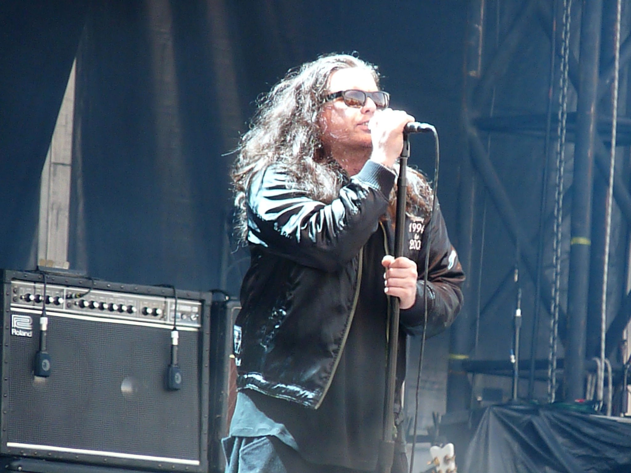 The Cult Emiliàn e rumagnòl: Ian Astbury di Cult tòlt śò durànt al Fèstival Rock 'd Azkena dal 2011